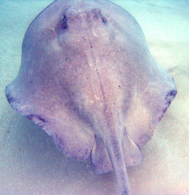 A Southern stingray (Hypanus americanus) viewed from head on.